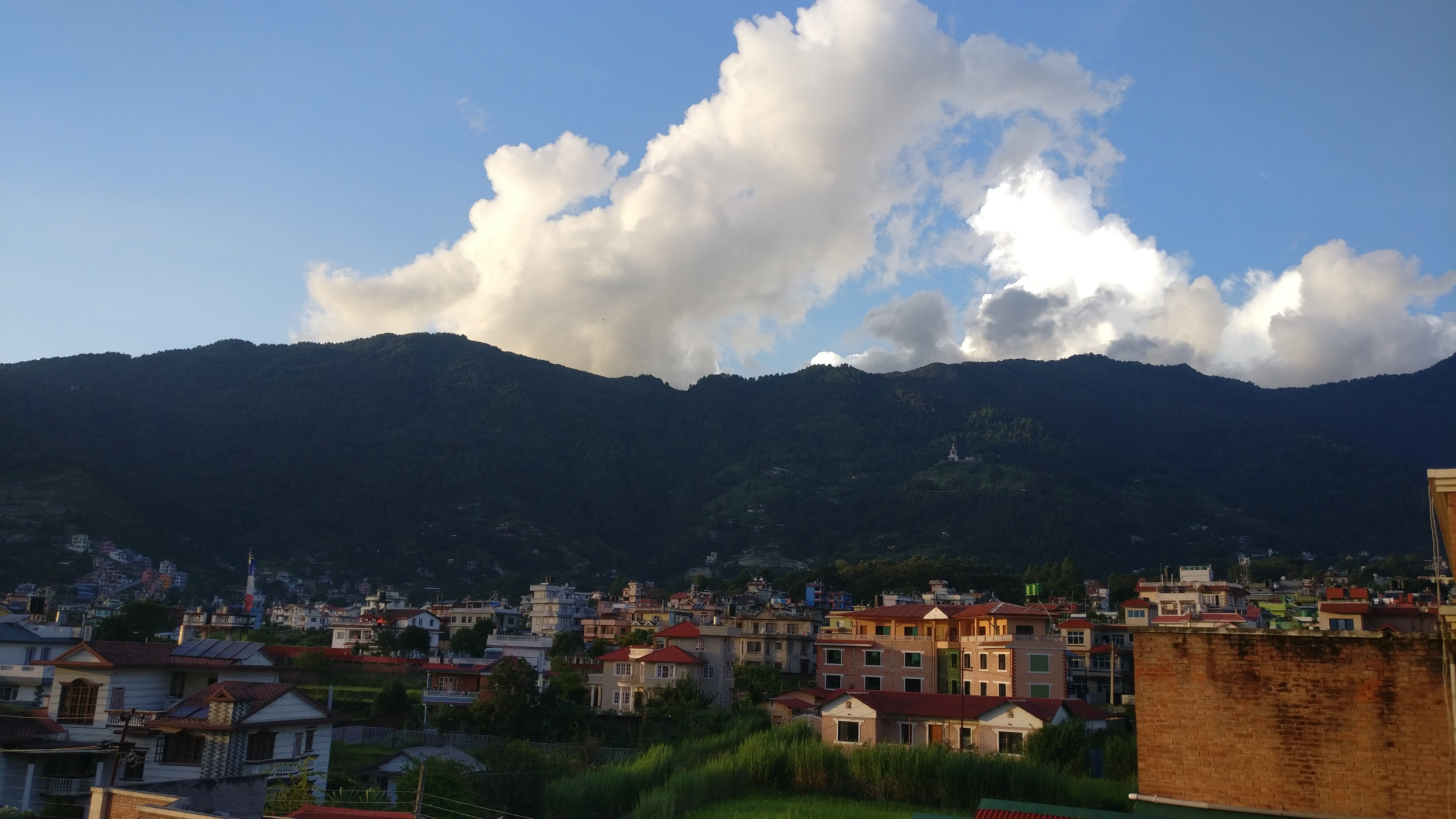 Budhanilkantha town at the foot of Shivapuri hills visible from a building terrace ಕನ್ನಡ: ಶಿವಪುರಿ ಬೆಟ್ಟದ ತಪ್ಪಲಲ್ಲಿ ಬುದನೀಲಕಂಠ ಊರು